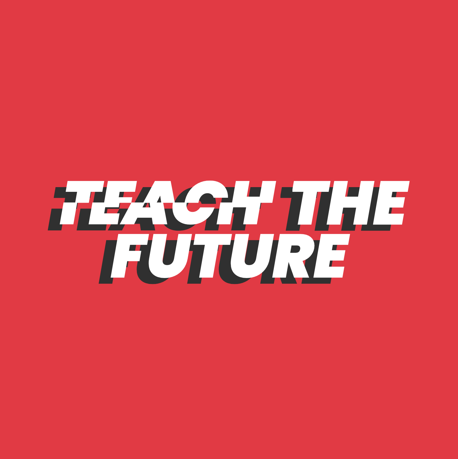 This is one of the new TtF logos